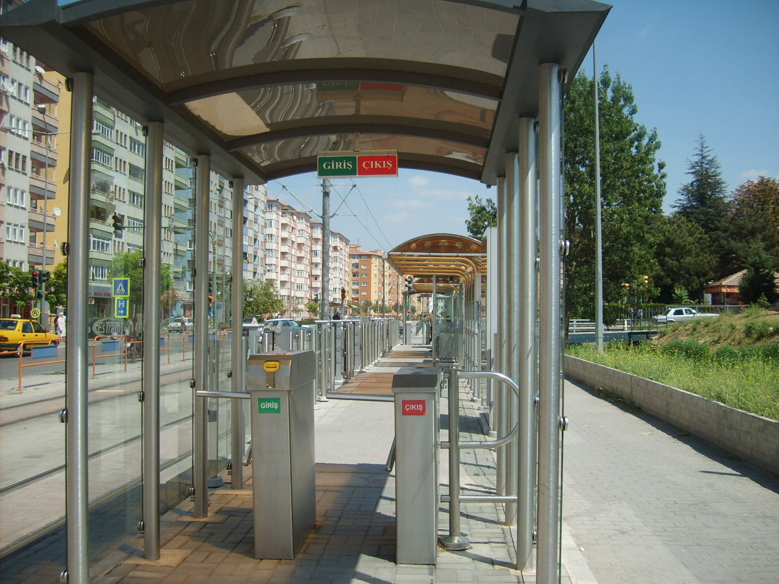 Eskişehir Estram Goverment hospital station